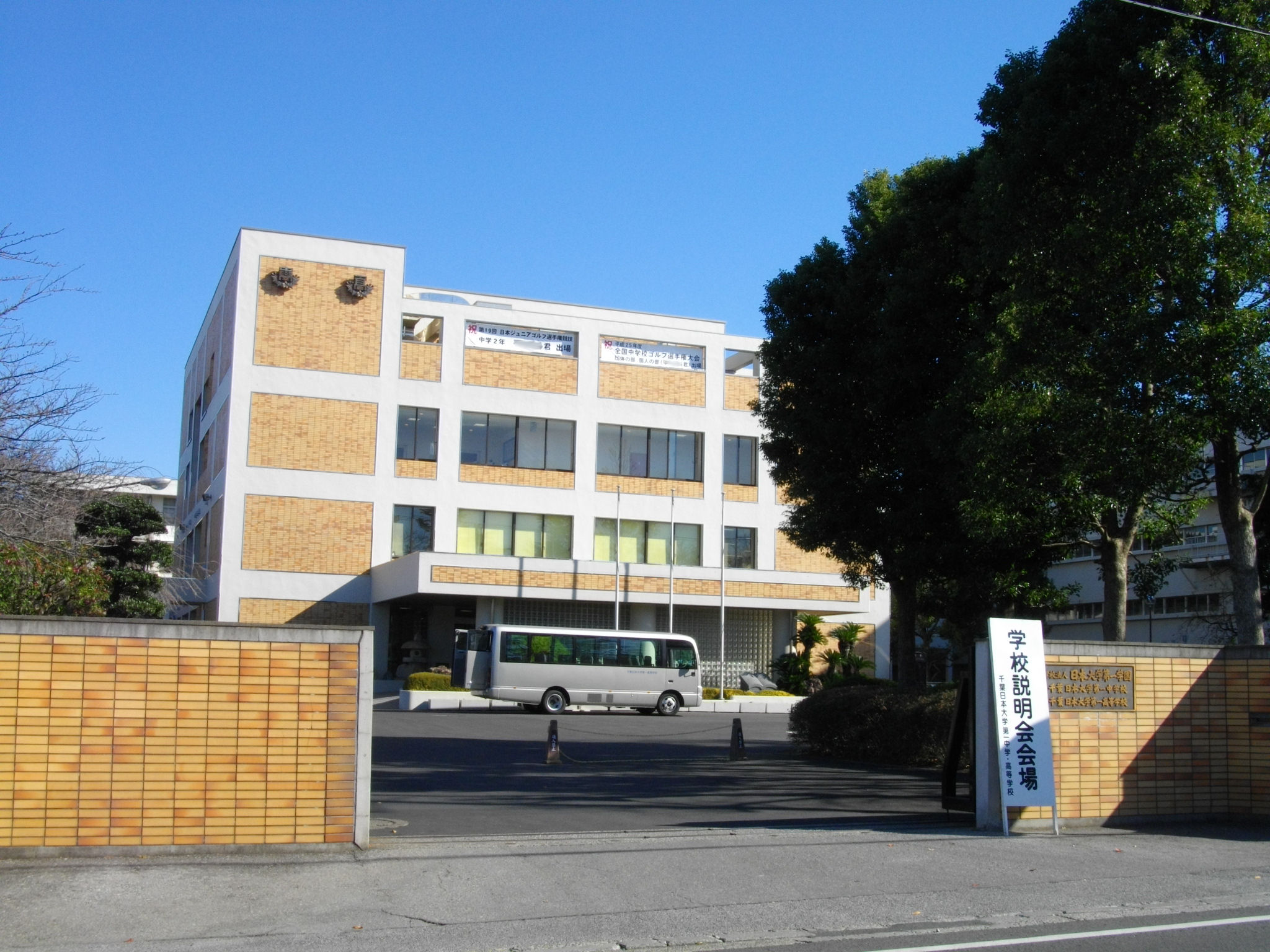 Chiba Nihon University Daiichi Junior & Senior High School